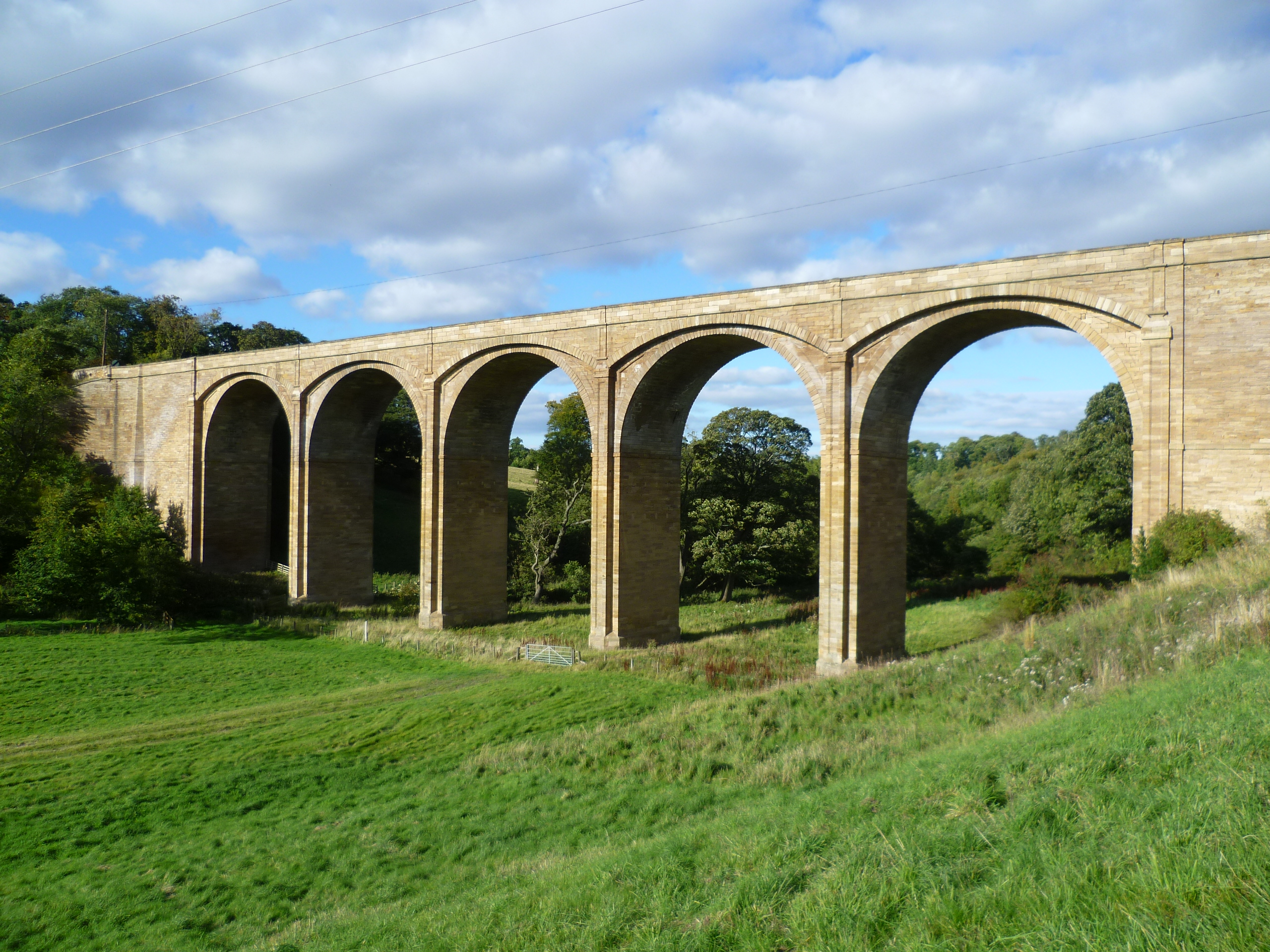 The bridge of five arches, designed by Thomas Telford, carries the original Great North Road (now the A68) over the Tyne Water just outside the village of Pathhead. A smaller version of the Dean Bridge over the Water of Leith in Edinburgh, it was completed in the same year, 1831.